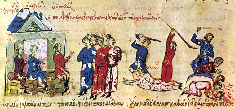 The Massacre of the Paulicians at the orders of the Byzantine empress Theodora, in 843/844